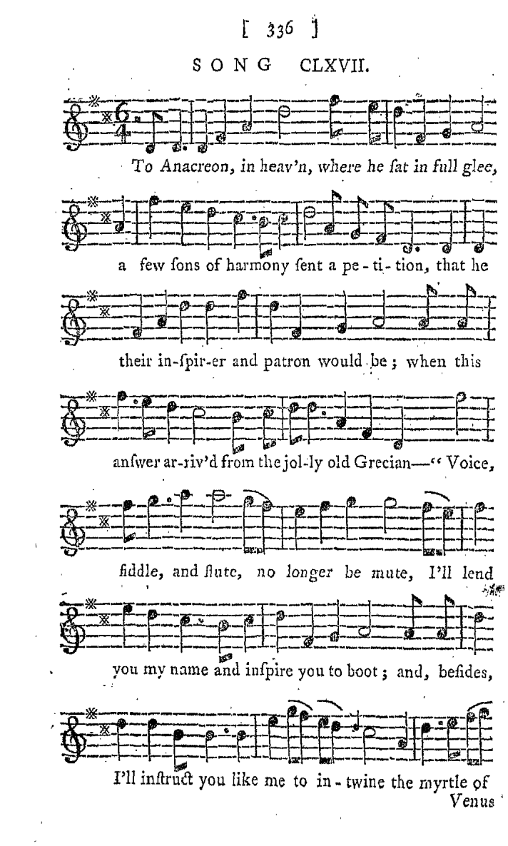 Words and music to "To Anacreon in Heav'n", from The Vocal Enchantress, 1783